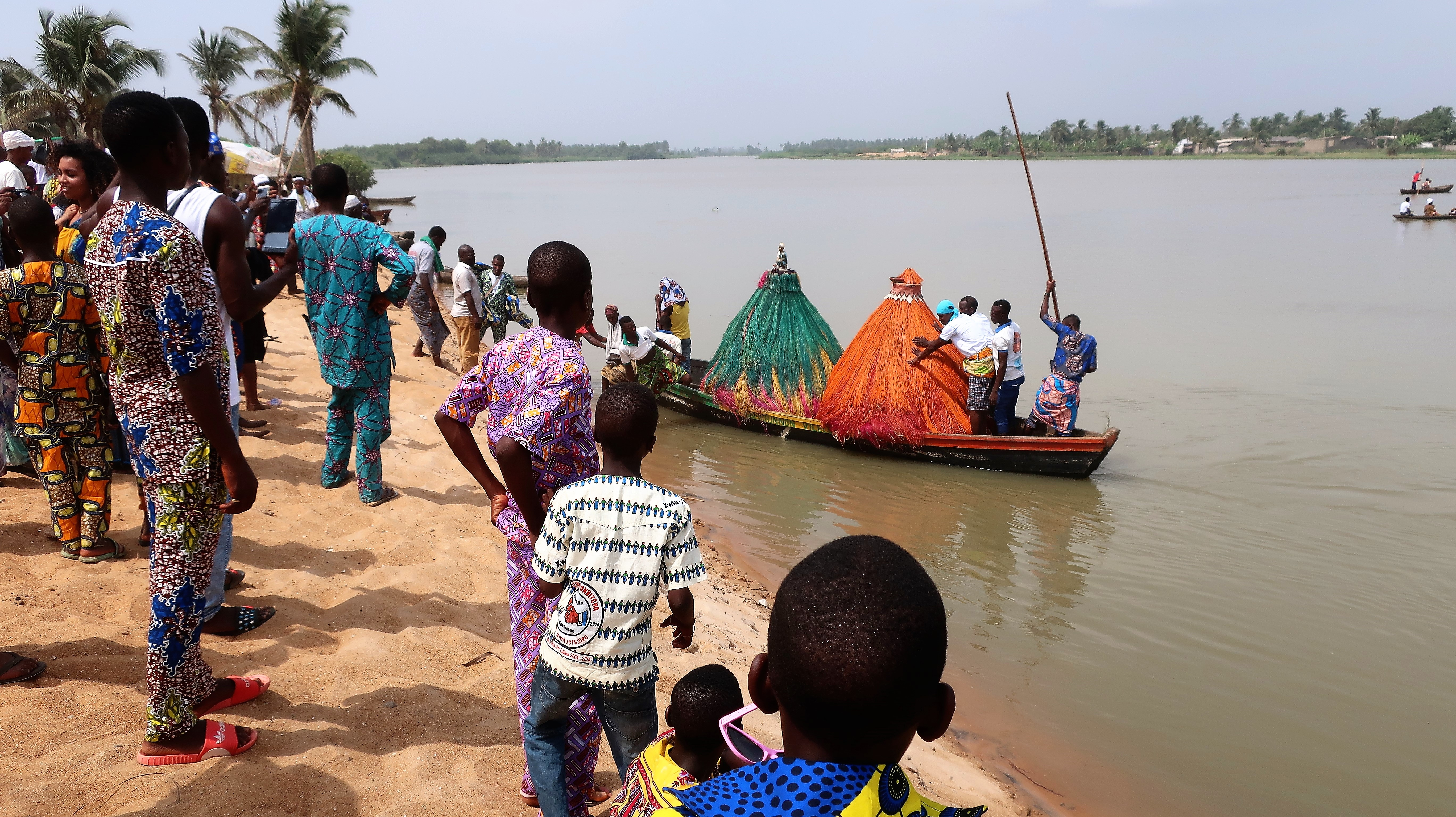 Two colorful, mythical features, Zangbetos are landing in a boat from across the Mono River into the Vodoun festival in Grand-Popo, Benin in January 2018. This is an image with the theme "Play" from: Benin